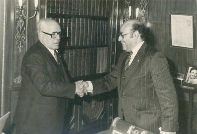 President Bourguiba (1900-2000) with cultural minister Bechir Ben Slama